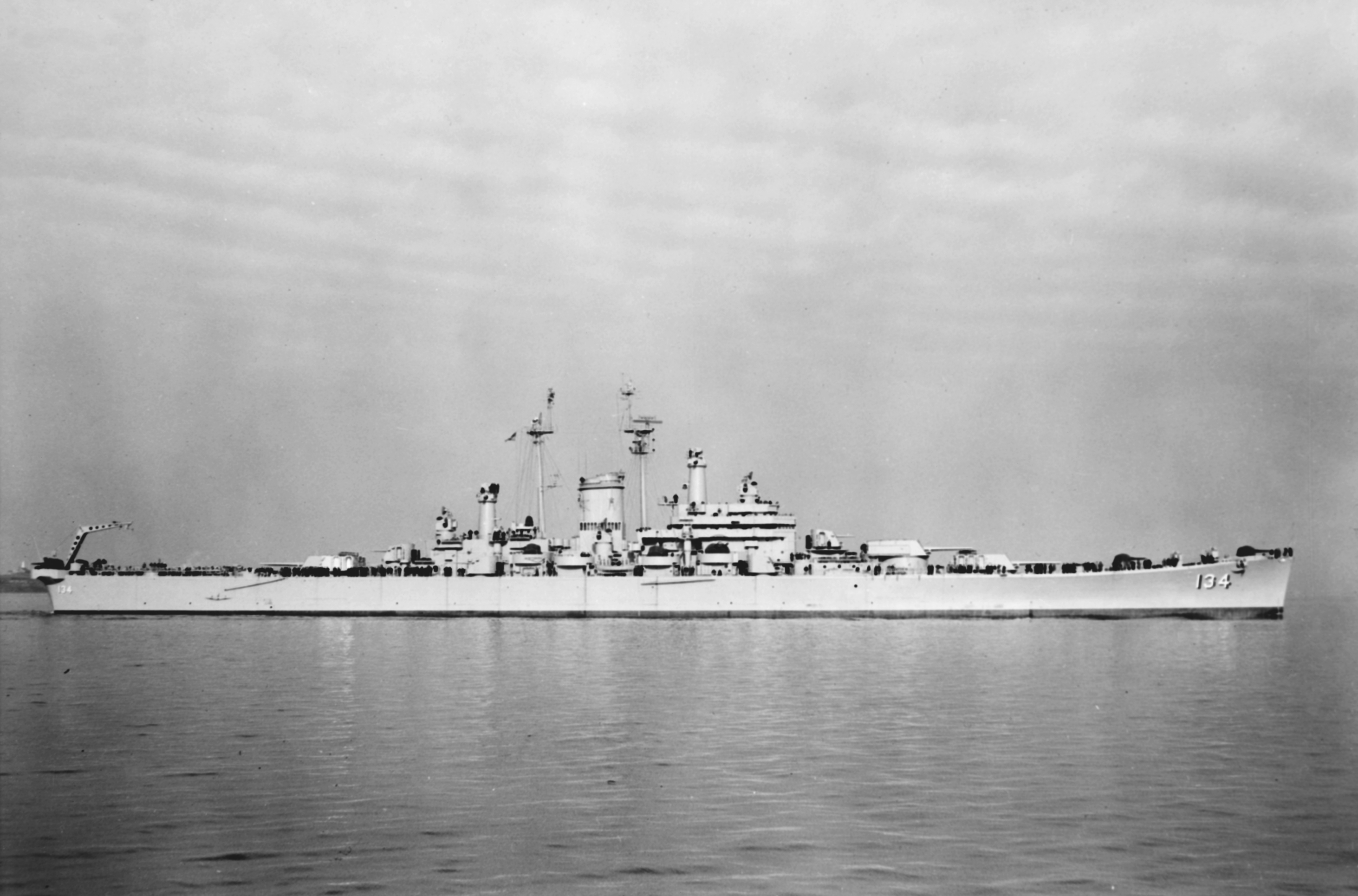 The U.S. Navy heavy cruiser USS Des Moines (CA-134) off Boston, Massachusetts (USA), in November 1949. However, an anonymous user says, "I served as a Marine on this Cruiser and can verify that the USS Des Moines was not off of Boston during Nov 1949. We were in Malta in Oct 1949 and in Naples, Italy for Xmas and new Years of 1949. Returned to US January, 1950!!"